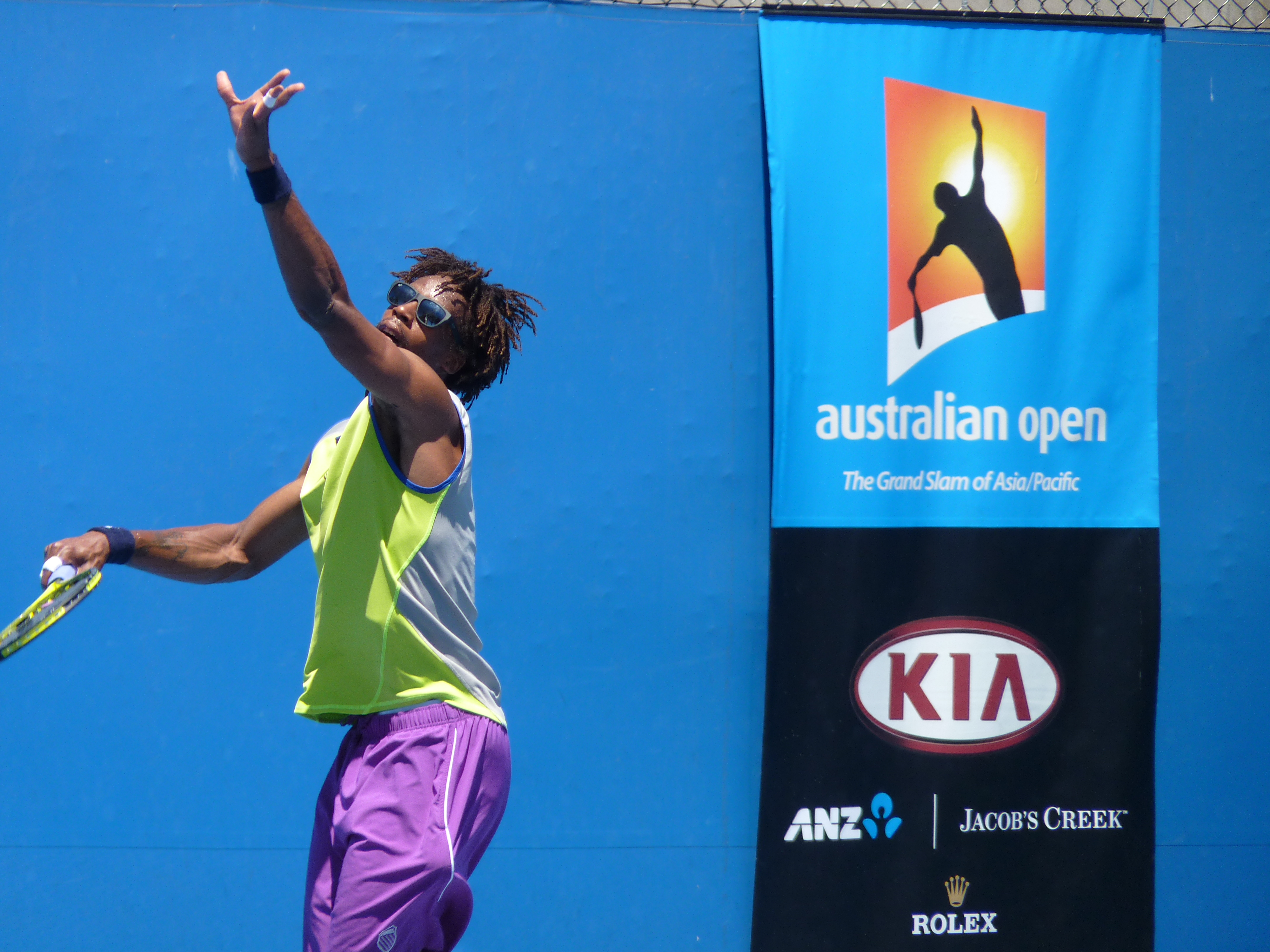 Gael Monfils wearing Sunglasses at the 2012 event.